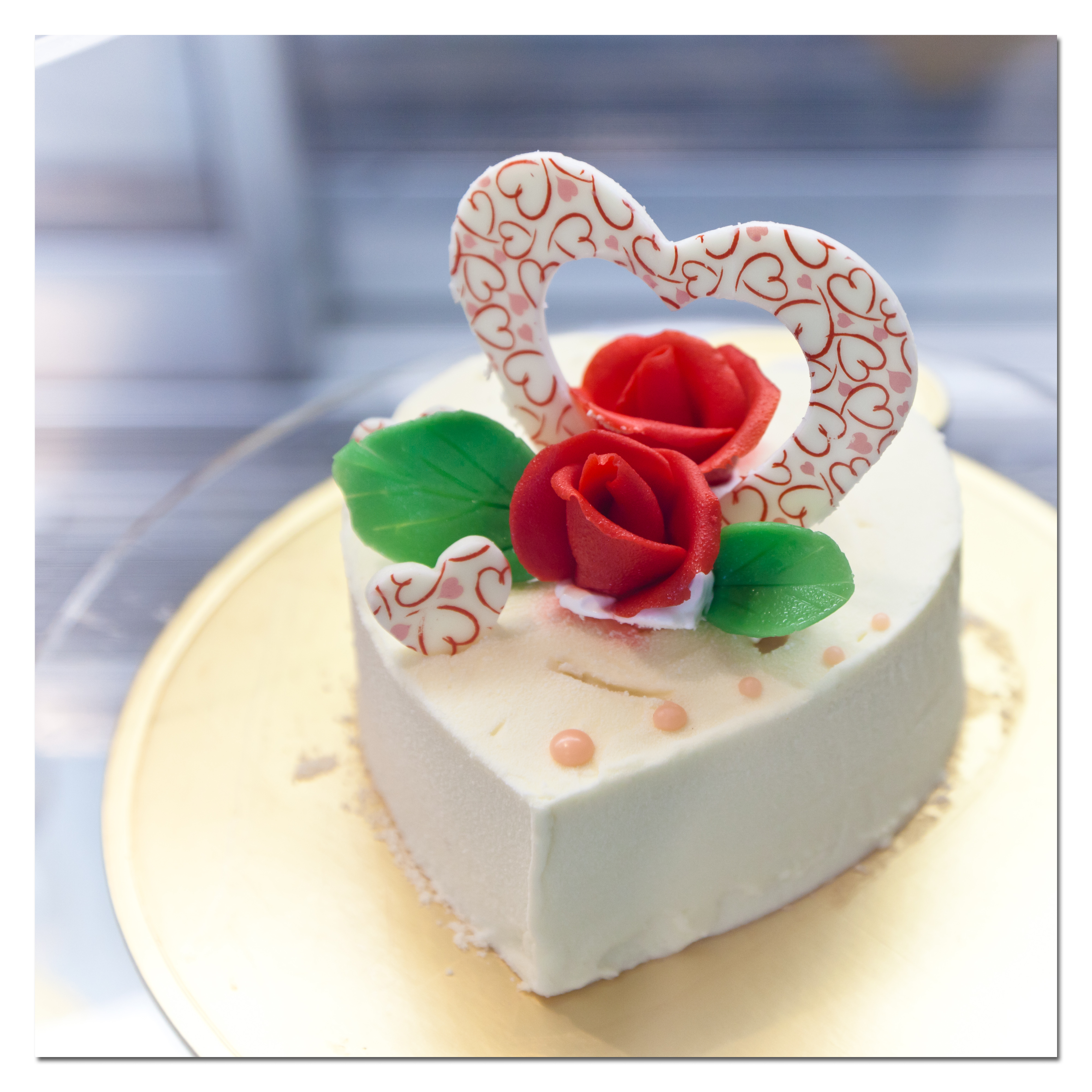 From Asian Twist